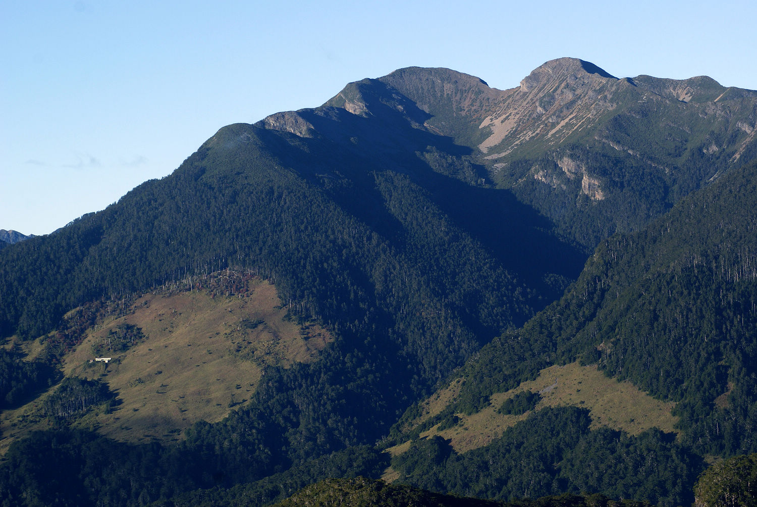 Hsueh Mountain, Taiwan 雪山主峰、北稜角